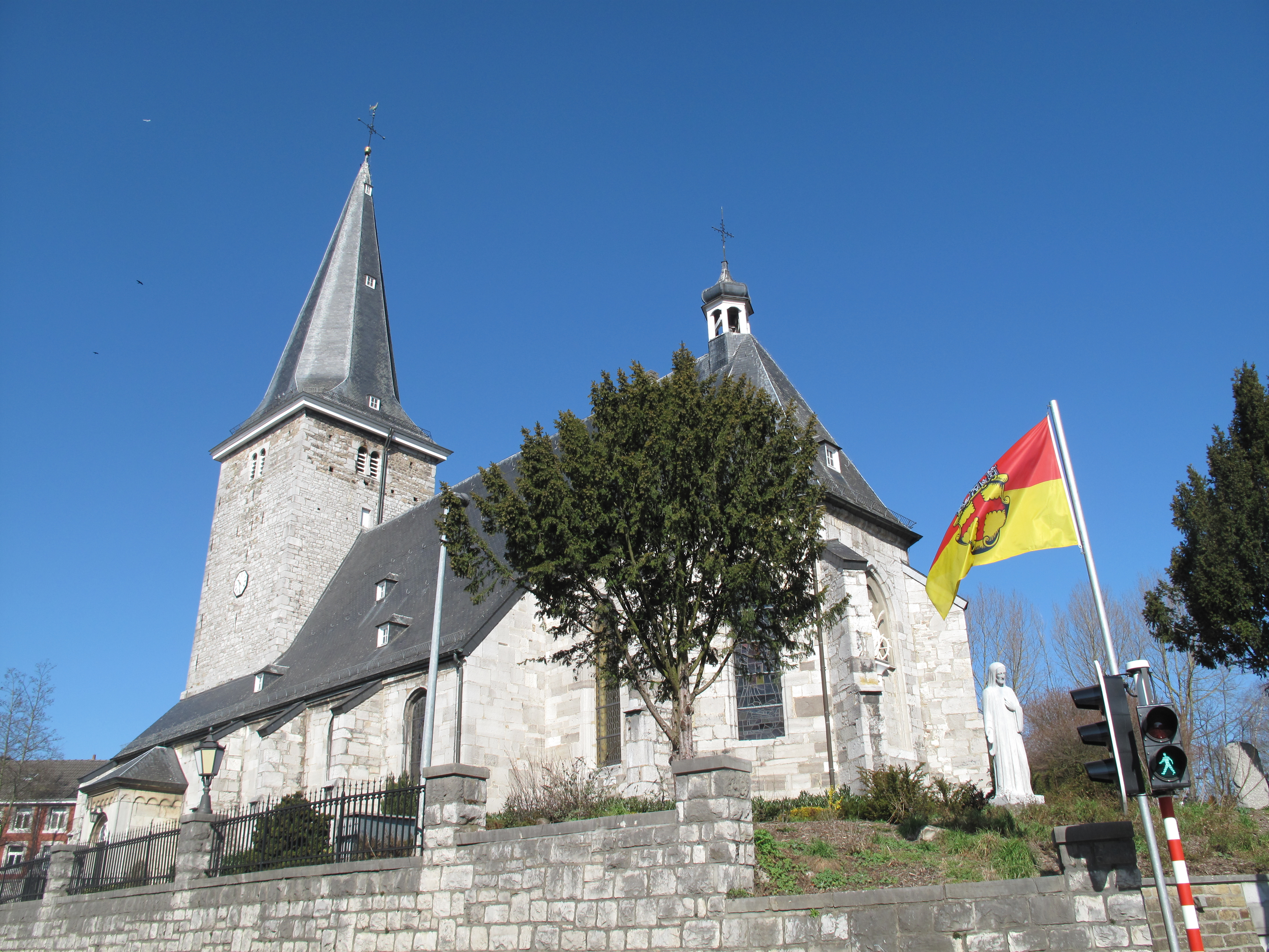 Kettenis, Saint Catherine's Church, with the municipal flag of Eupen